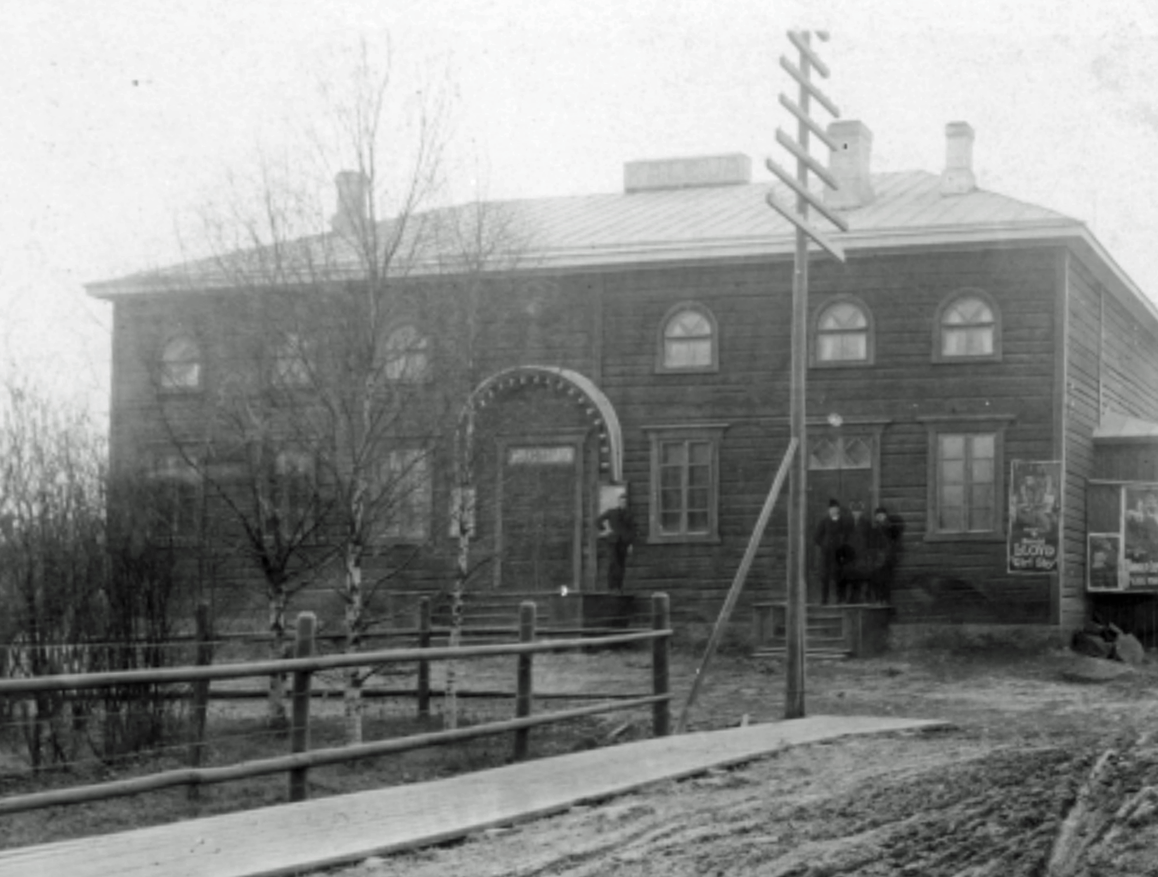 Movie theater Kaleva in Seinäjoki, completed in 1926